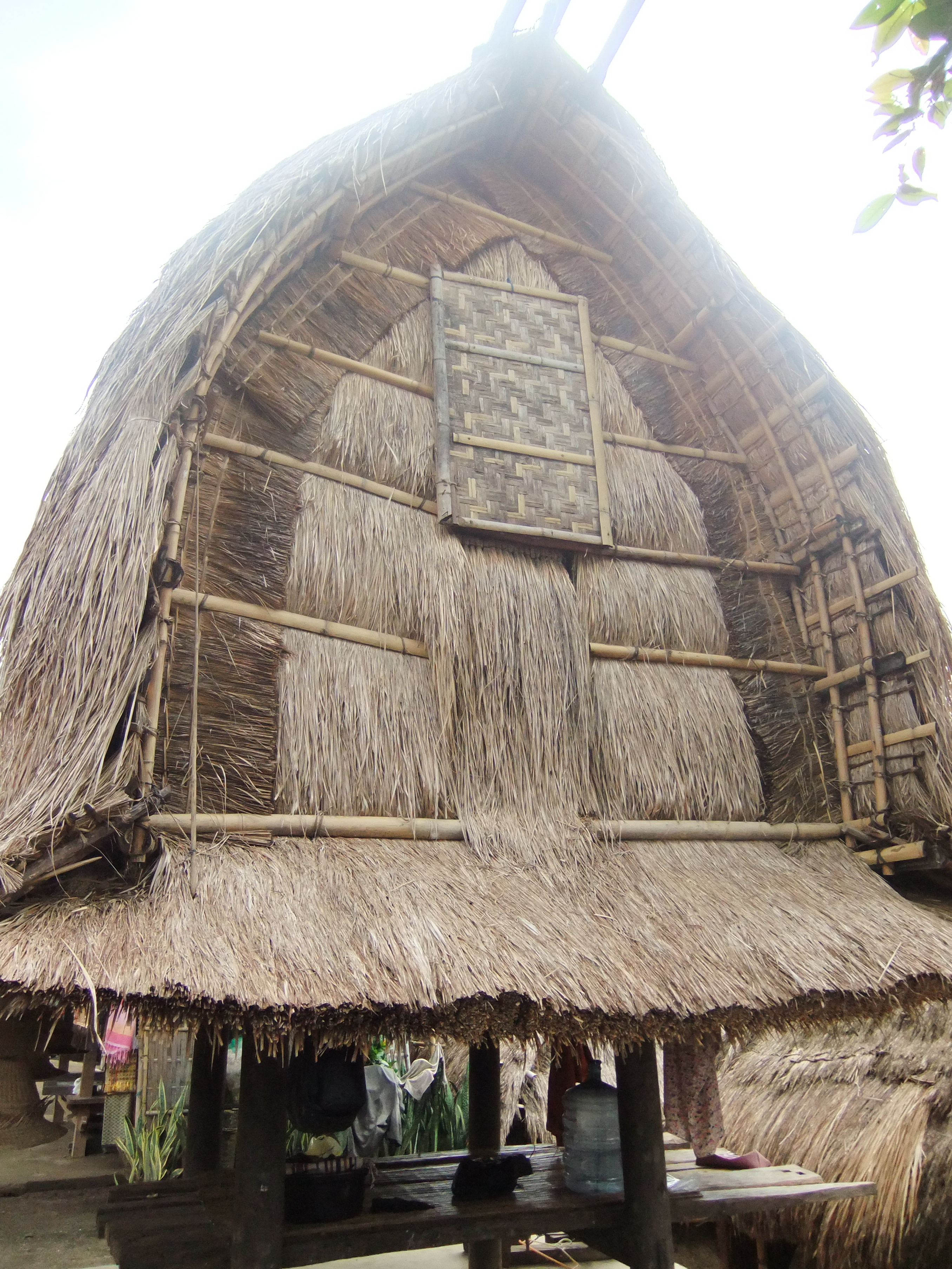 Rice barn at Traditional Sasak Village Desa Sade, Lombok, Indonesia